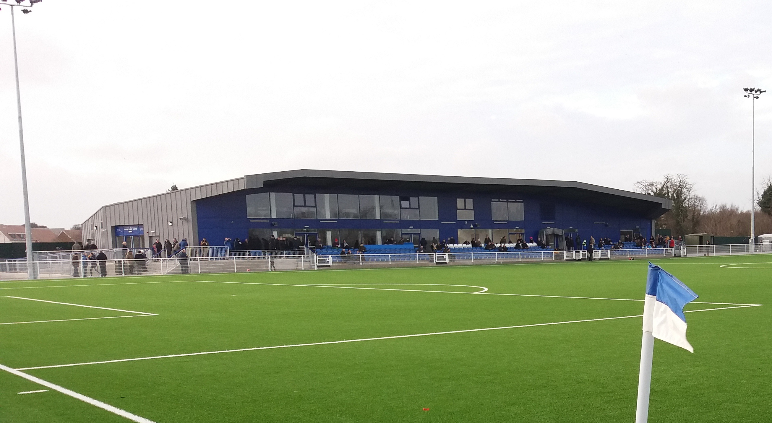 The main stand and clubhouse at Aveley FC's Parkside ground.